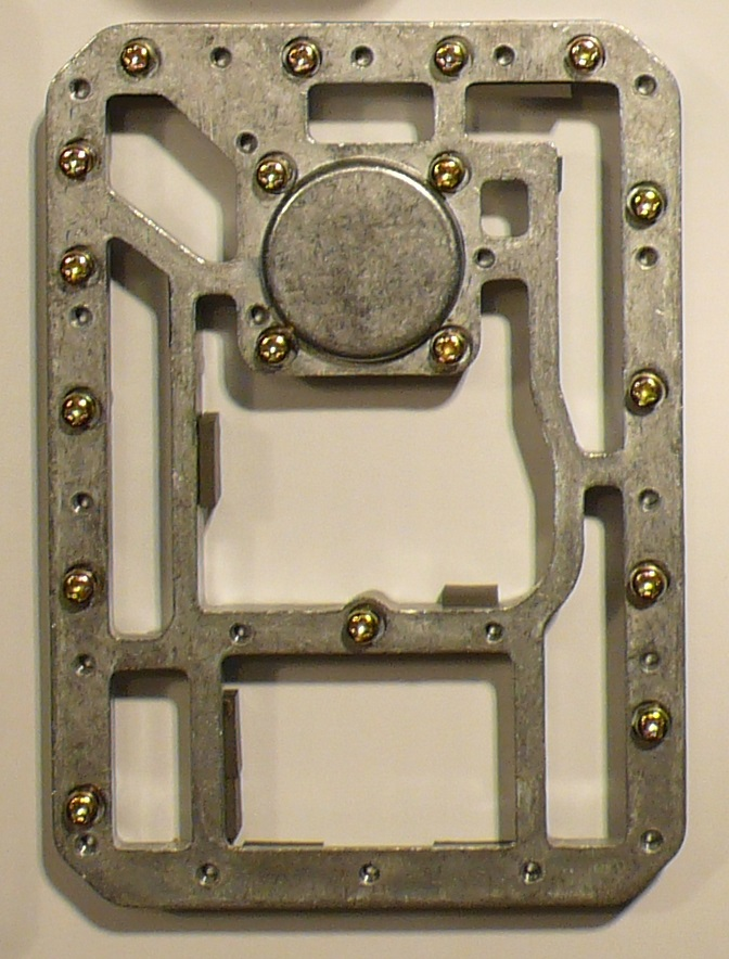 Microstrip via fence shielding casting